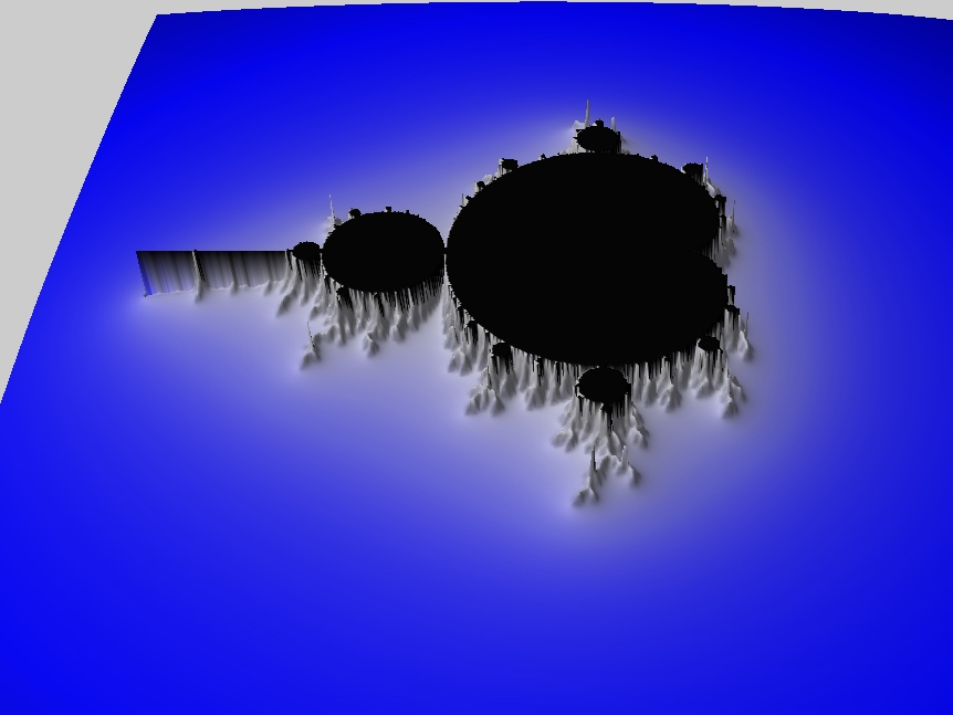 This plot is centered at -.75,0. It has a real width of 3.5